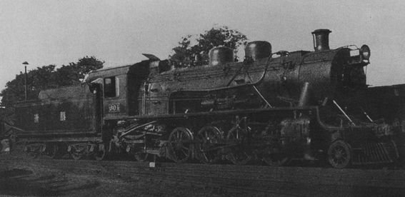 Steam locomotive 604 of the Jiaoji Railway (later China Railways class JF17)